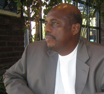 Premberton Private Collection